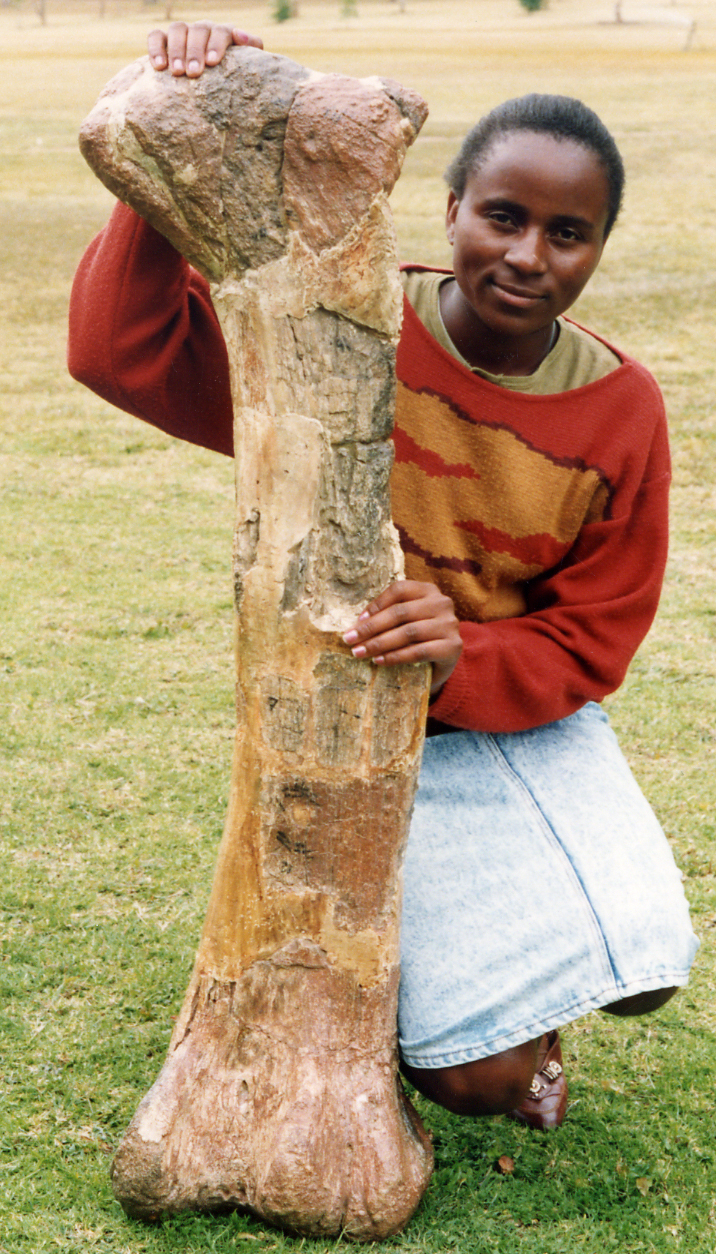 Brachiosaurid femur, thigh bone of a large dinosaur, and geologist Metrinah Ruzvidzo in Zimbabwe